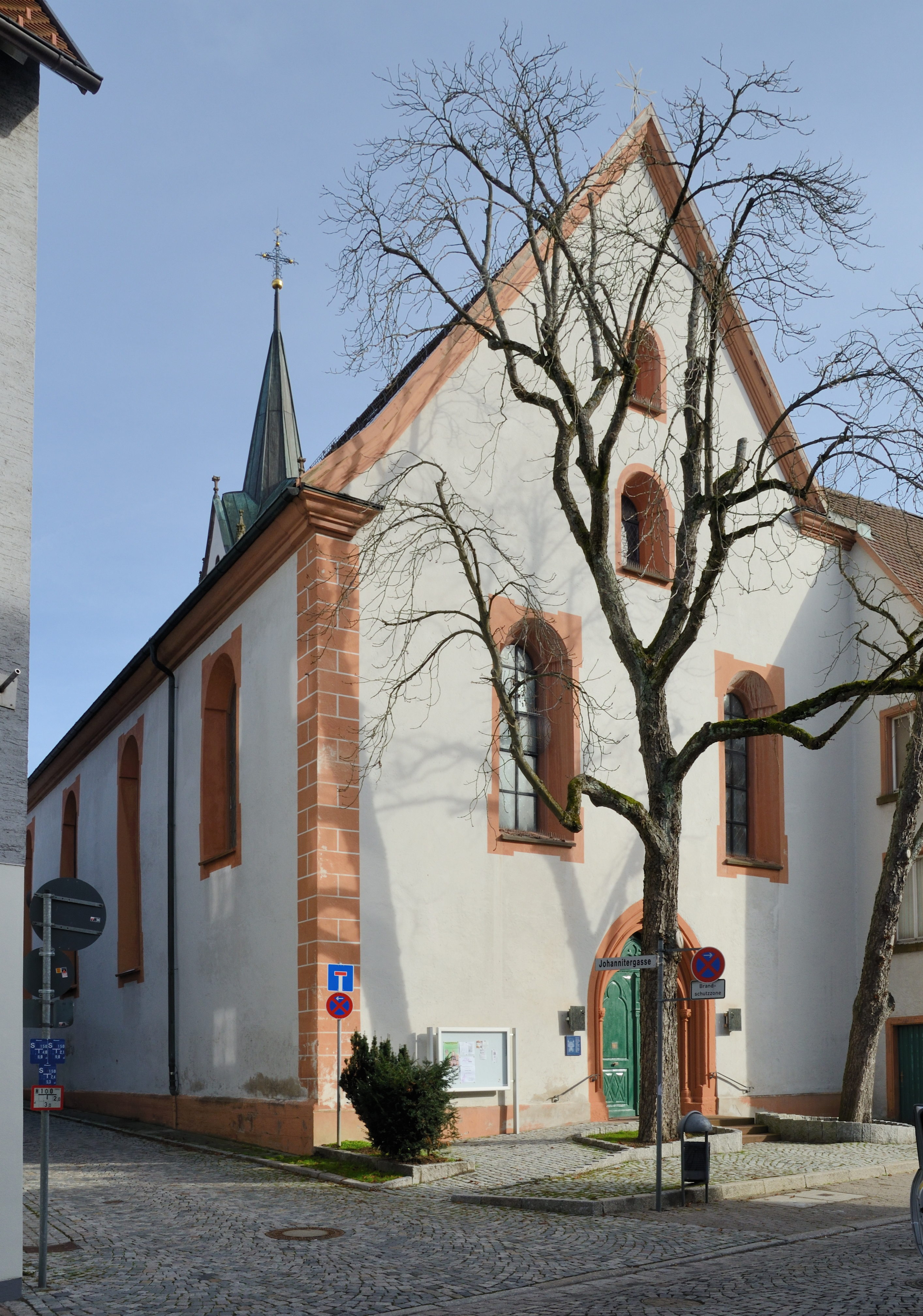 Villingen: Hospitaller Church